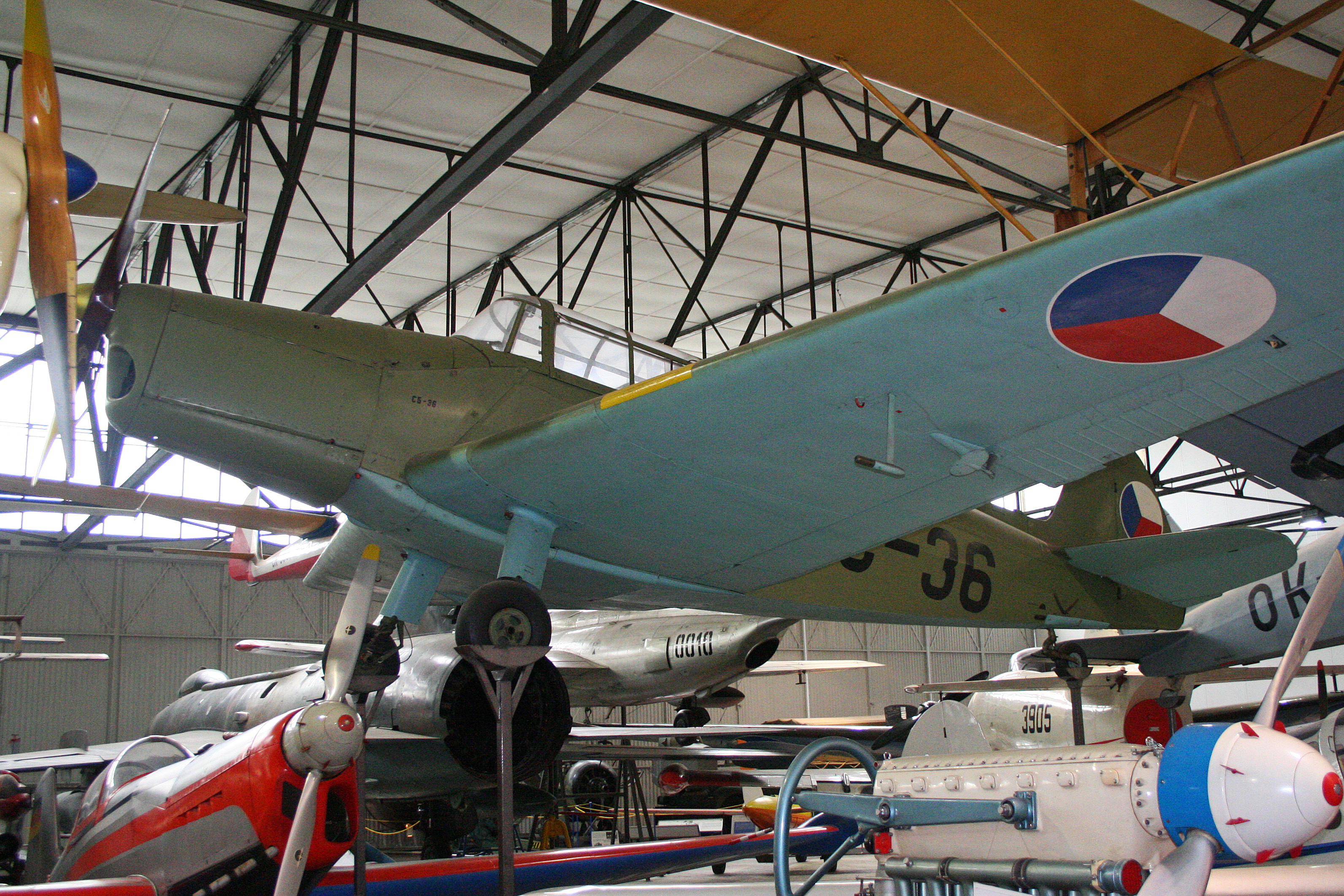 msn 536. On display in the Post War hangar, Kbely Museum, Czech Republic. 07-10-2012